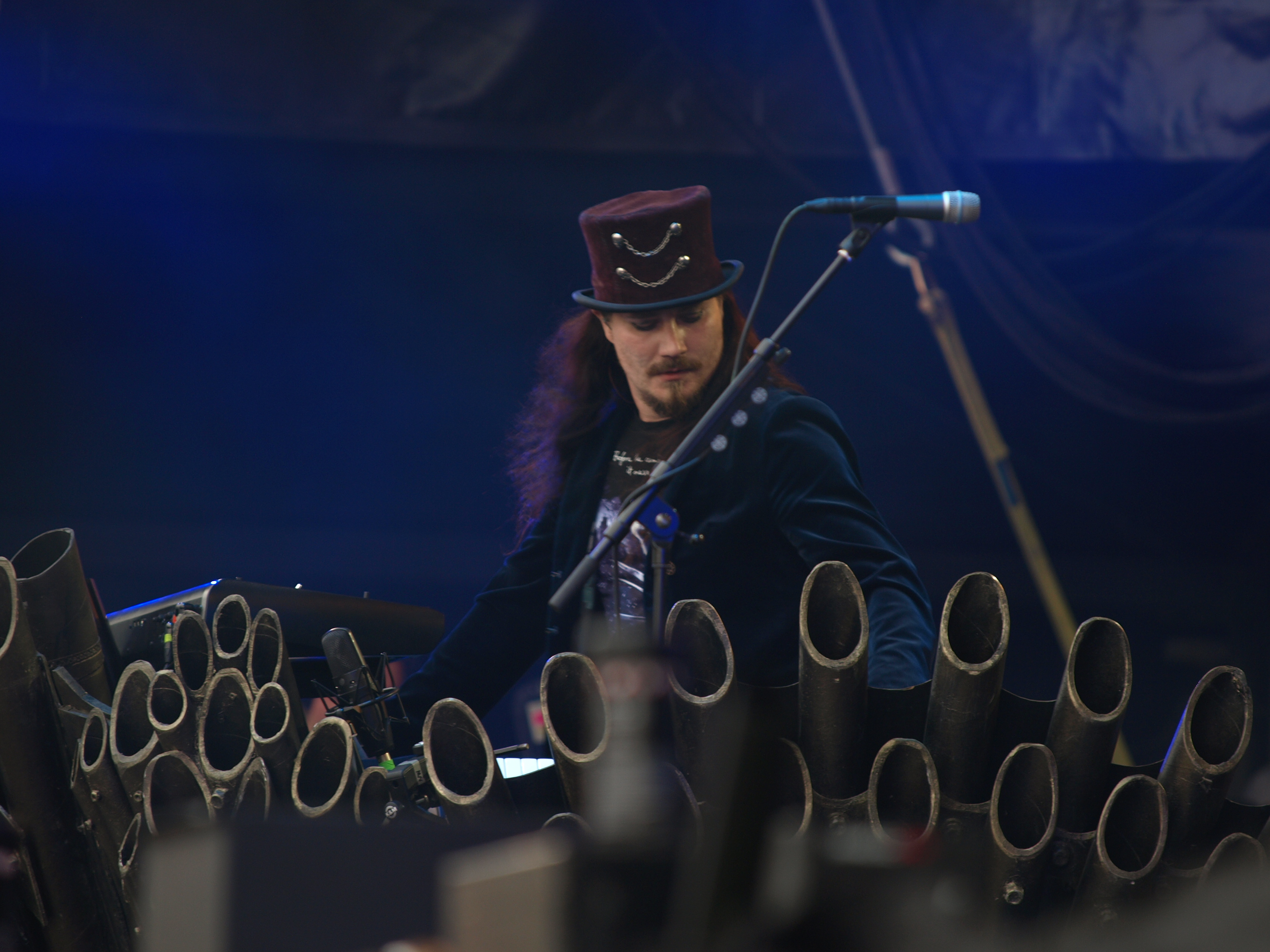 Finnish band Nightwish at Tuska Open Air 2013